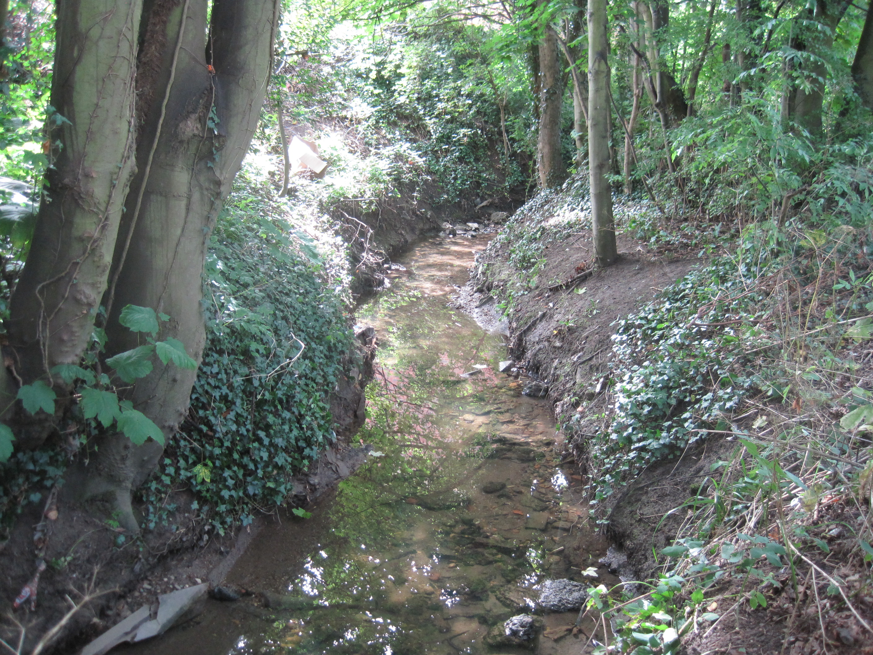 Pymmes Brook in Victoria Recreation Ground, Barnet, London